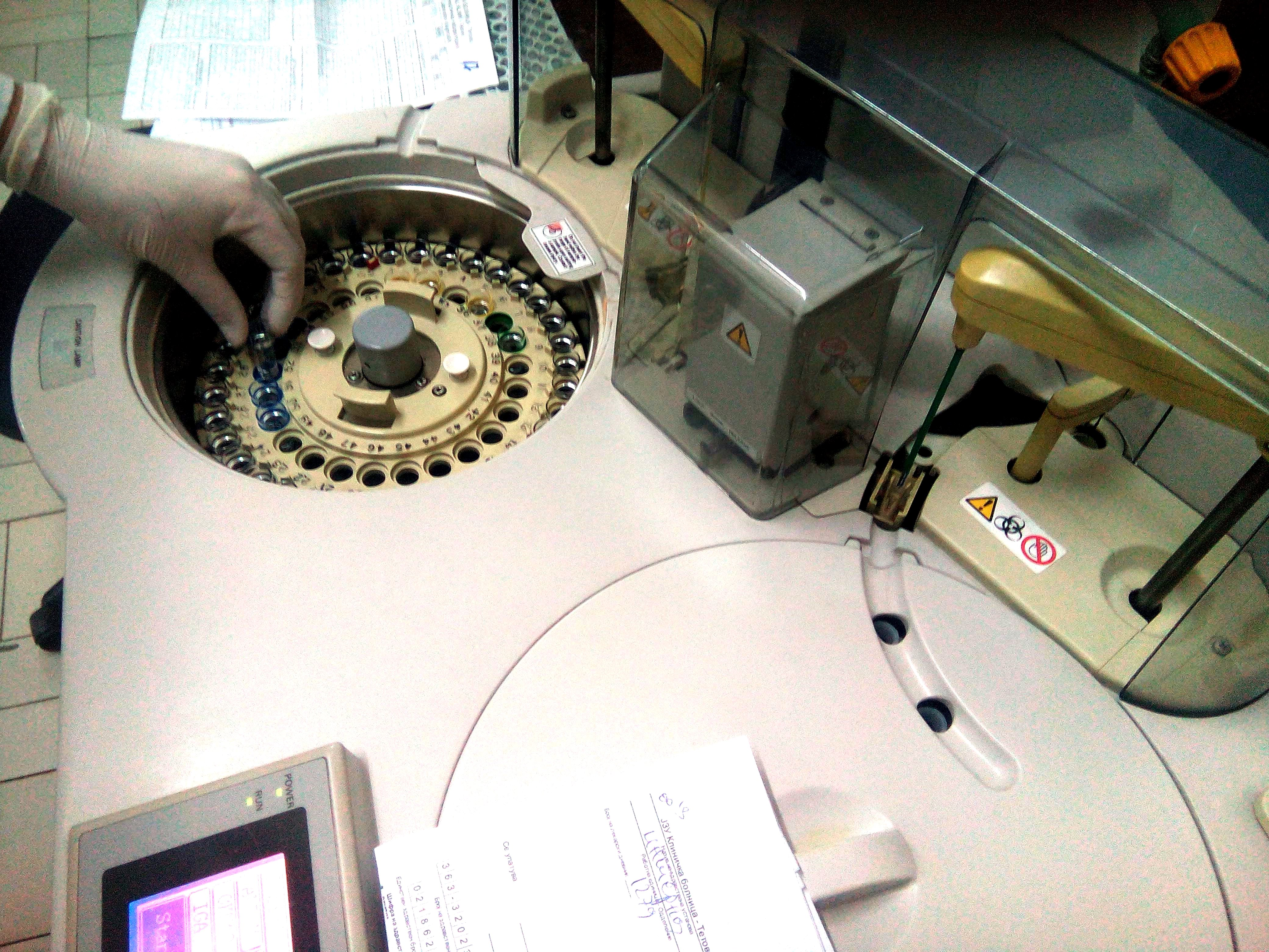 Clinical Chemistry Analyzer are automated analyzer ,,Immulite,, for many biochemical parameters at the same time in biochemical laboratory.